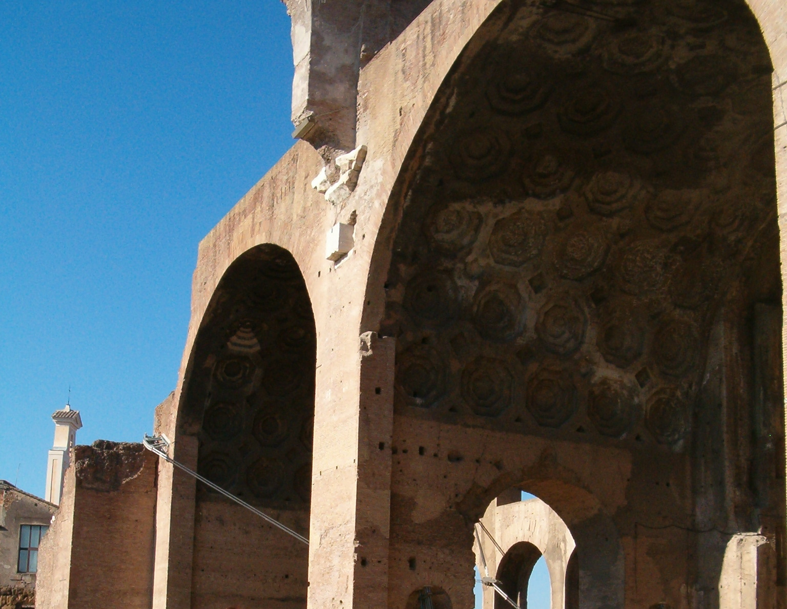 Basilica of Maxentius and Constantine in the Forum Romanum, Rome.